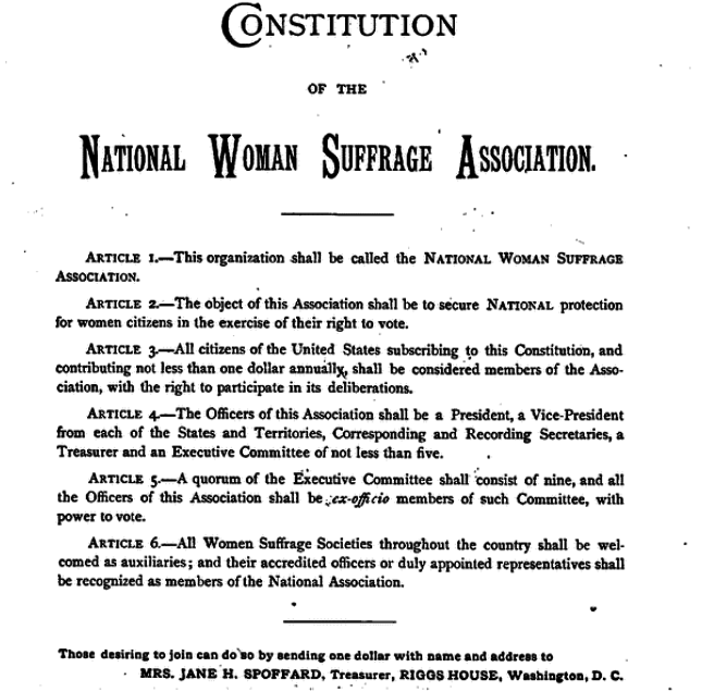 Constitution of the National Woman Suffrage Association. Title Constitution of the National Woman Suffrage Association. Summary A compilation of programs from various meetings of the NAWSA. Contributor Names National Woman Suffrage Association (U.S.) Catt, Carrie Chapman, 1859-1947, former owner. National American Woman Suffrage Association Collection (Library of Congress) Created / Published [Washington, D.C. : National Woman Suffrage Association, 1883]. Subject Headings - National Woman Suffrage Association (U.S.)--Constitution Notes - Caption title. - Also available in digital form on the Library of Congress Web site. - LC copy has bookplate: library, Carrie Chapman Catt. - Gift; National American Woman Suffrage Association; Nov. 1, 1938. - With: National Woman Suffrage Association, Fifteenth Annual Washington Convention, Lincoln Hall, commencing ... January 22, 1883, and continuing ... January 23, 24, 25, 1883 ... [Washington, D.C.] : R.H. Darby, [1883] -- National Woman Suffrage Association, Seventeenth Annual Washington Convention, Universalist Church ... January 20, 21, and 22, 1885. Wash. [Washington] : Gibson Bros., [1885] -- National Woman Suffrage Association, Nineteenth Annual Washington Convention, Metropolitan Church ... January 25, 26, and 27, 1887. [Washington, D.C.] : Darby, [1887]. Bound together subsequent to publication. Medium, p.; 23 cm. Call Number/Physical Location JK1881 .N357 sec. VII, no. 1, #14 Digital Id //hdl.loc.gov/loc.rbc/rbnawsa.n8340 Library of Congress Control Number 93838340 Description A compilation of programs from various meetings of the NAWSA. LCCN Permalink: //lccn.loc.gov/93838340